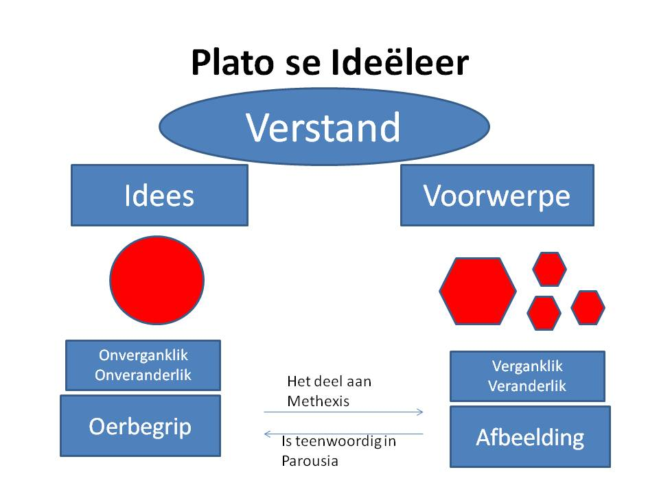 Scematic presentation of Plato's Theory of Forms